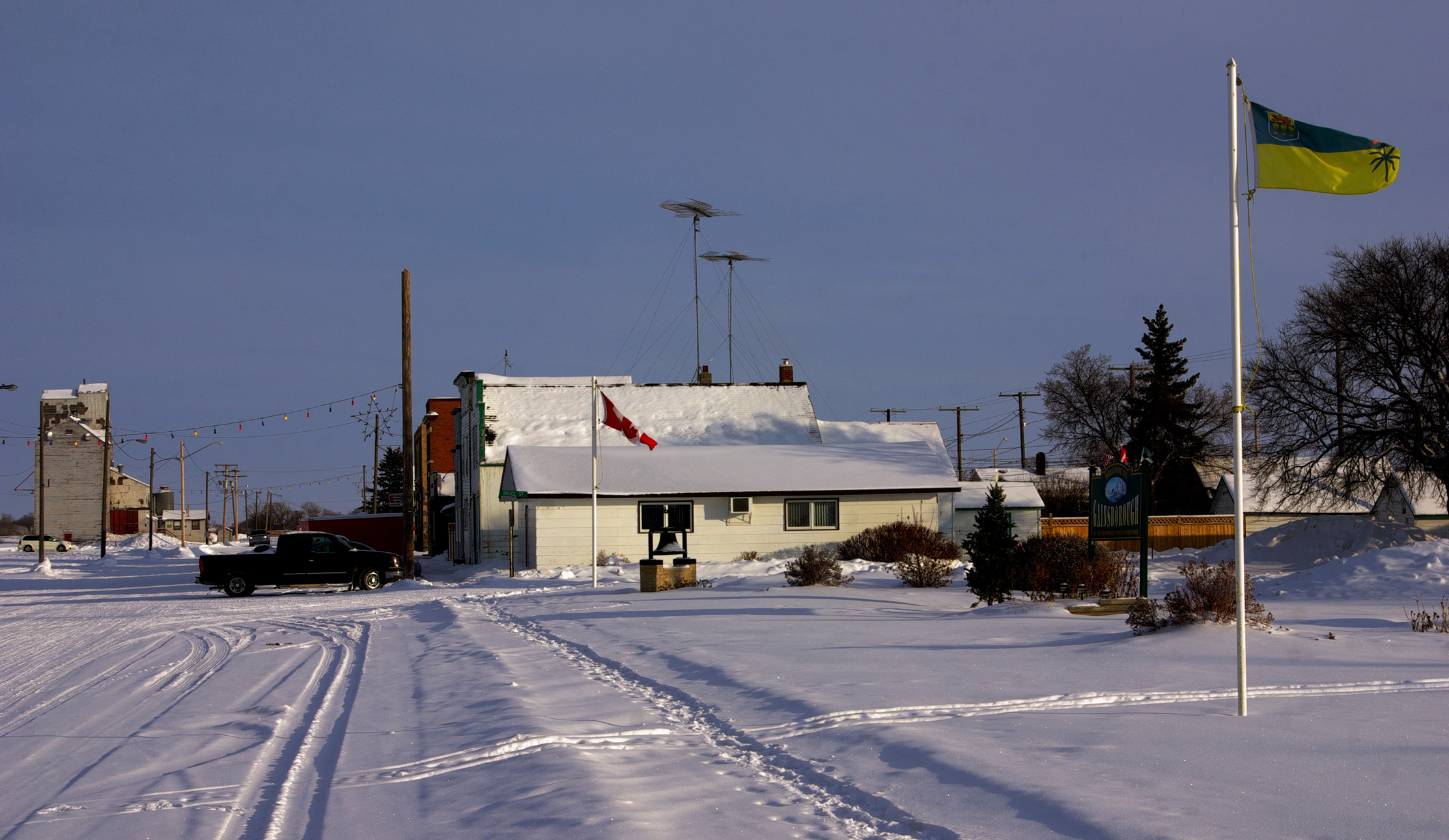 Eastward view down Railway Ave in Gainsborough, Saskatchewan, Canada in early 2011. This is taken from approximately the same viewpoint as the Dr William Hobbs' painting "40 Below Zero". The block of buildings featured in that painting were sequentially demolished during the late 1980s and 1990s, and the location was rechristened Bennet Park (open area between flags on the right side). The highway and railway tracks are out of the frame to the left/north.